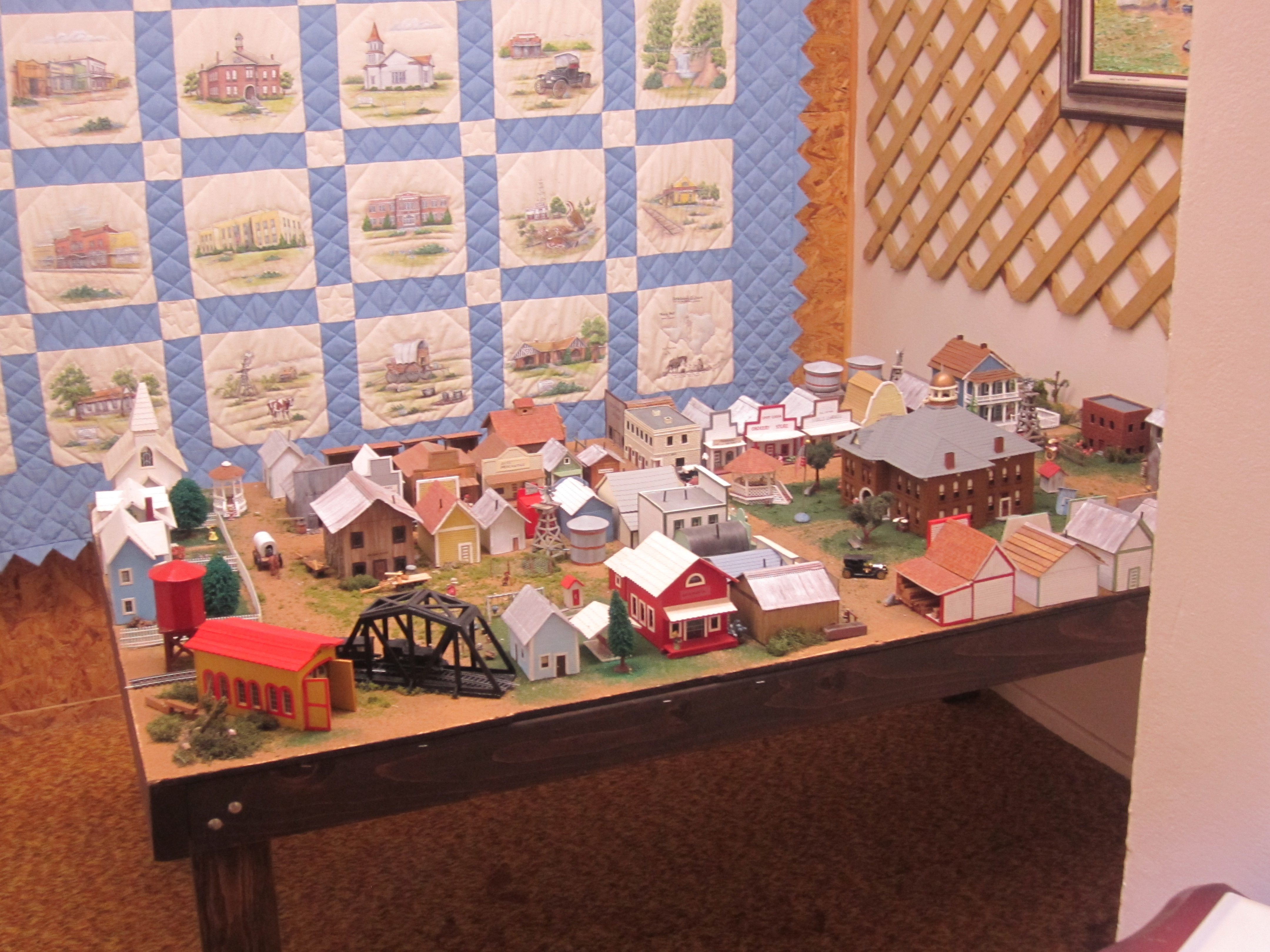 I took photo at Motley County Historical Museum in Matador, TX, with Canon camera.